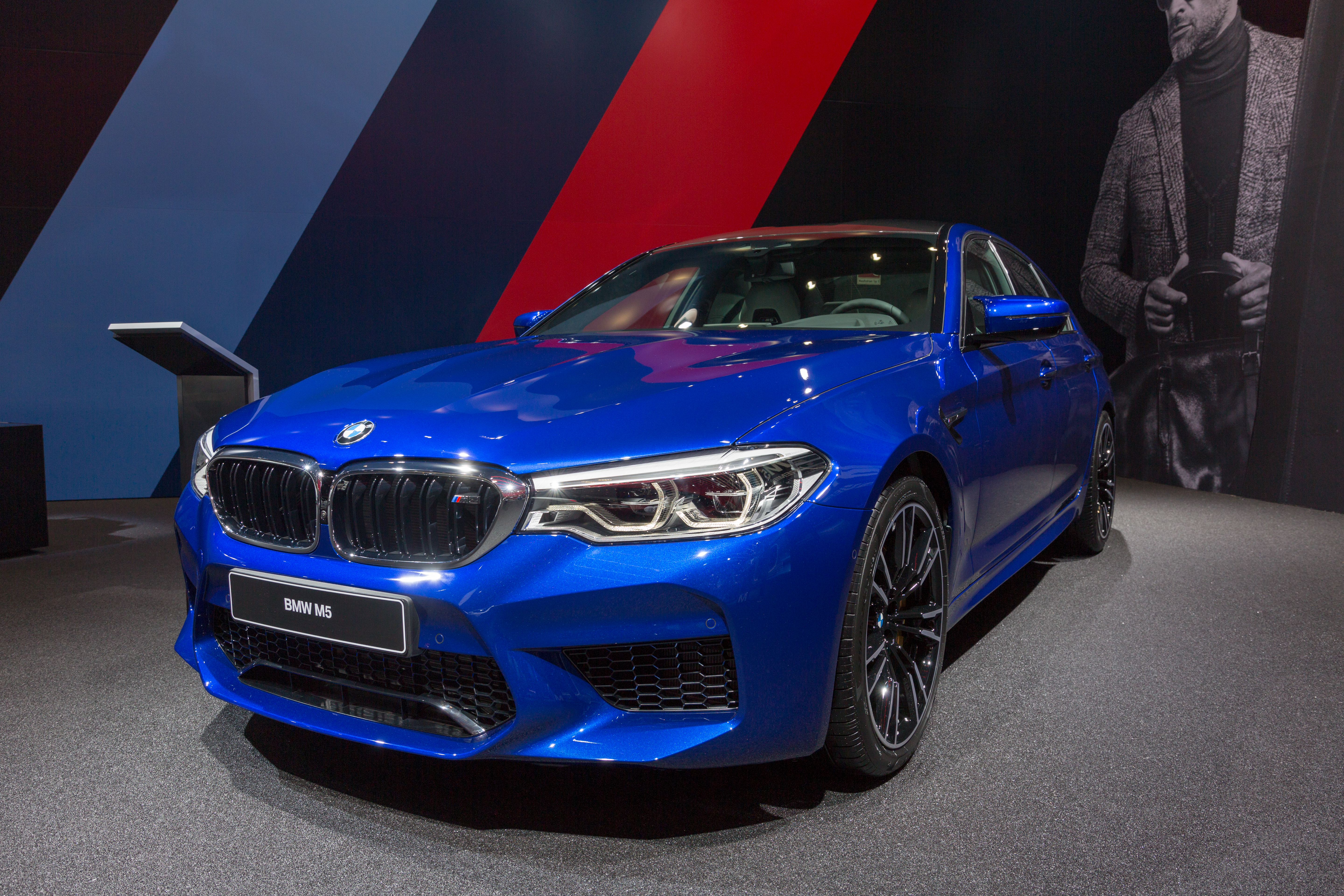 BMW M5, Frankfurt Auto Show IAA 2017